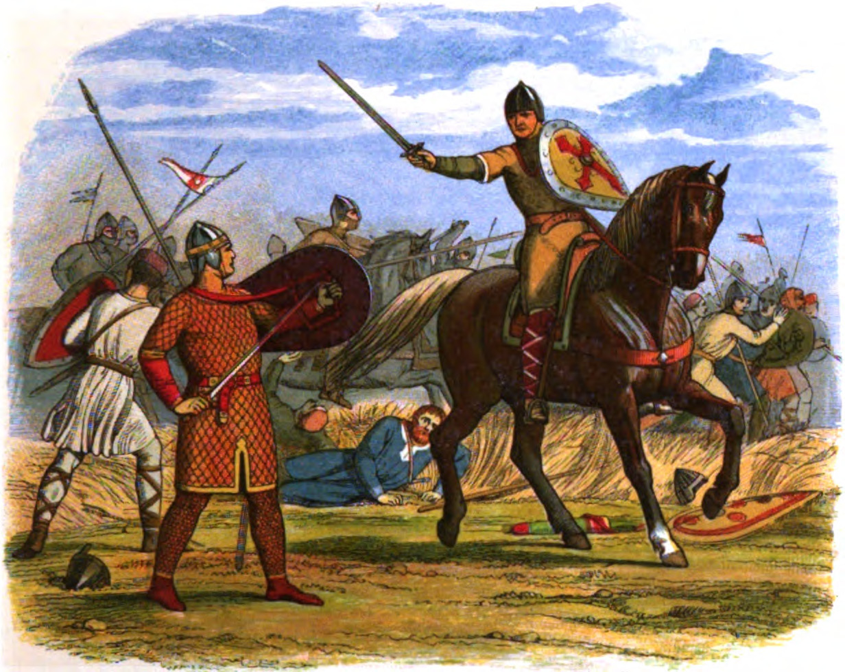 Robert Curthose is captured by the clerk Baudri at the Battle of Tinchebray.